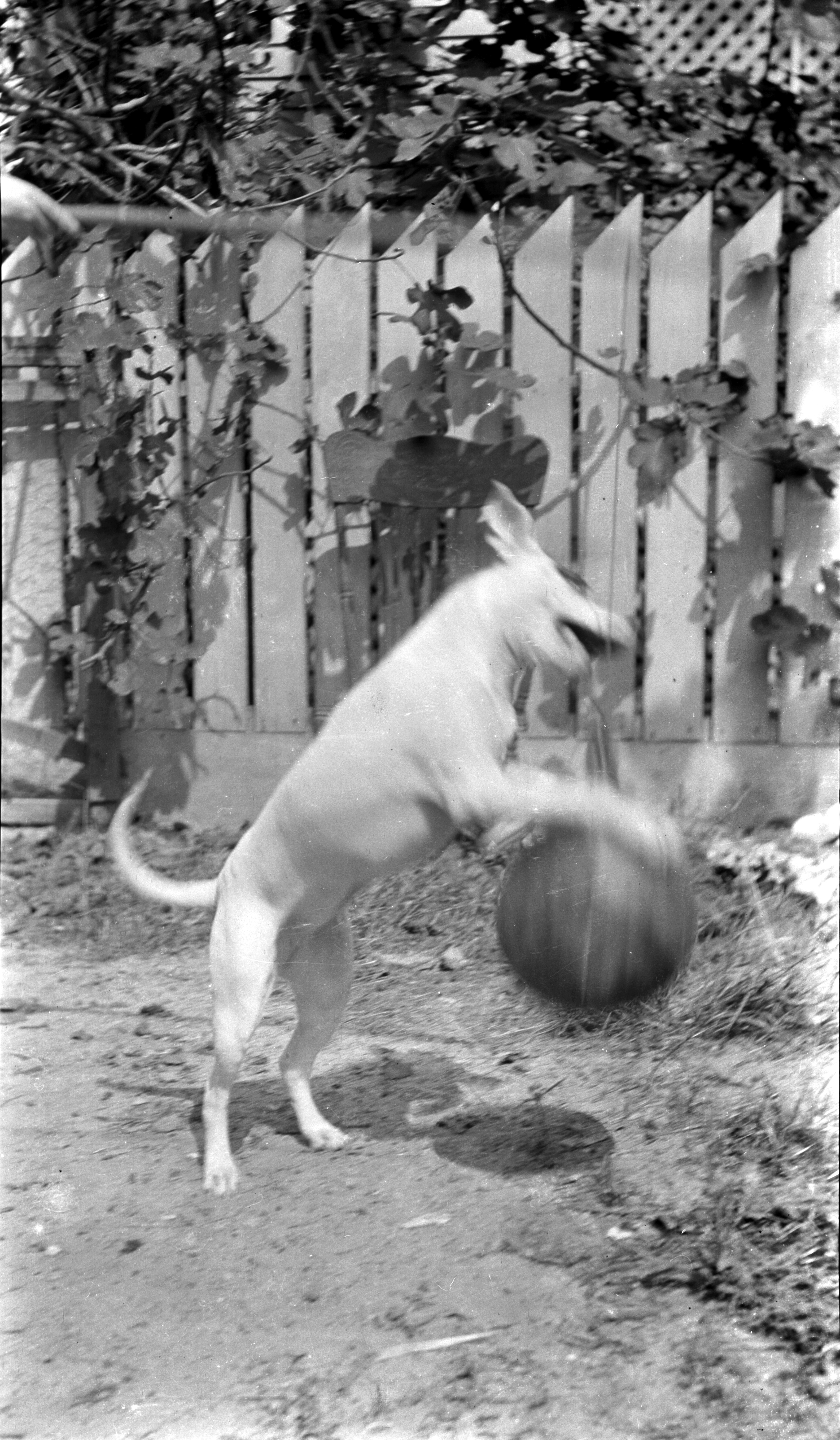 Original title of the image: Dog with ball. Original description: A dog leaping to grab a ball that is attached to a stick by a string. A person's hand can be seen moving the stick that the ball is attached to.